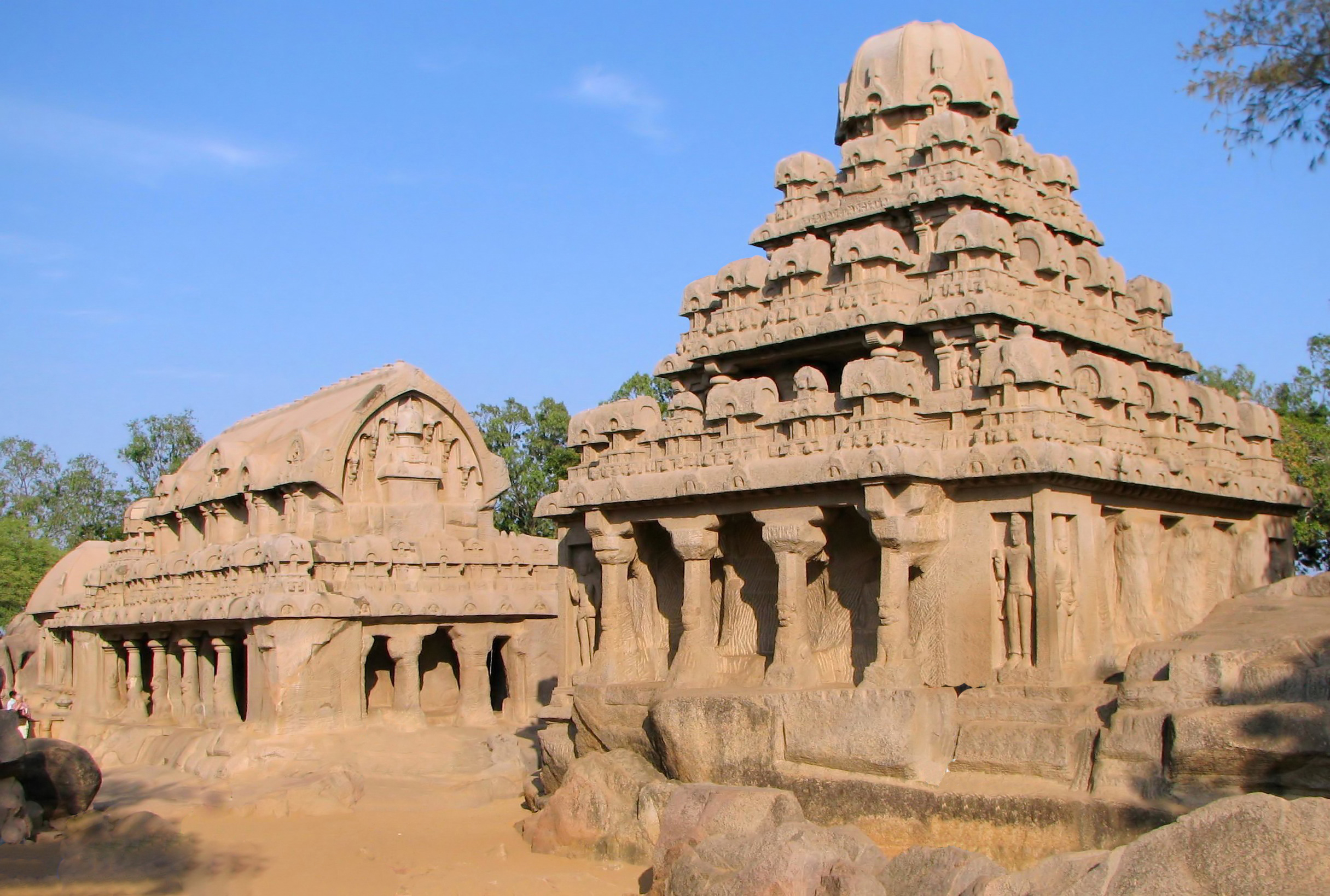 Bhima and Dharmaraja temples in Pacha Rathas site, Mahabalipuram, Tamil Nadu, India